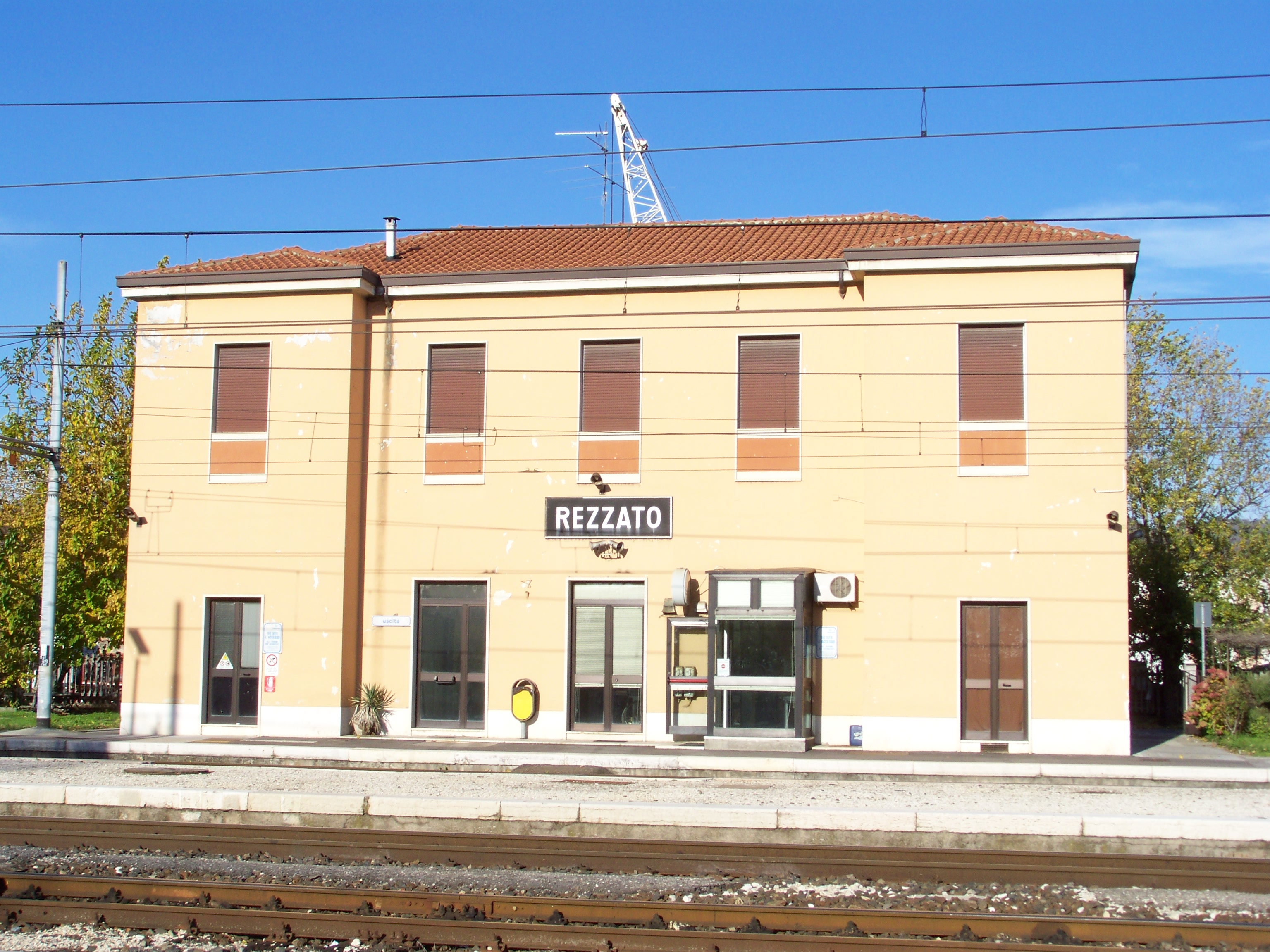 Rezzato RFI Train Station